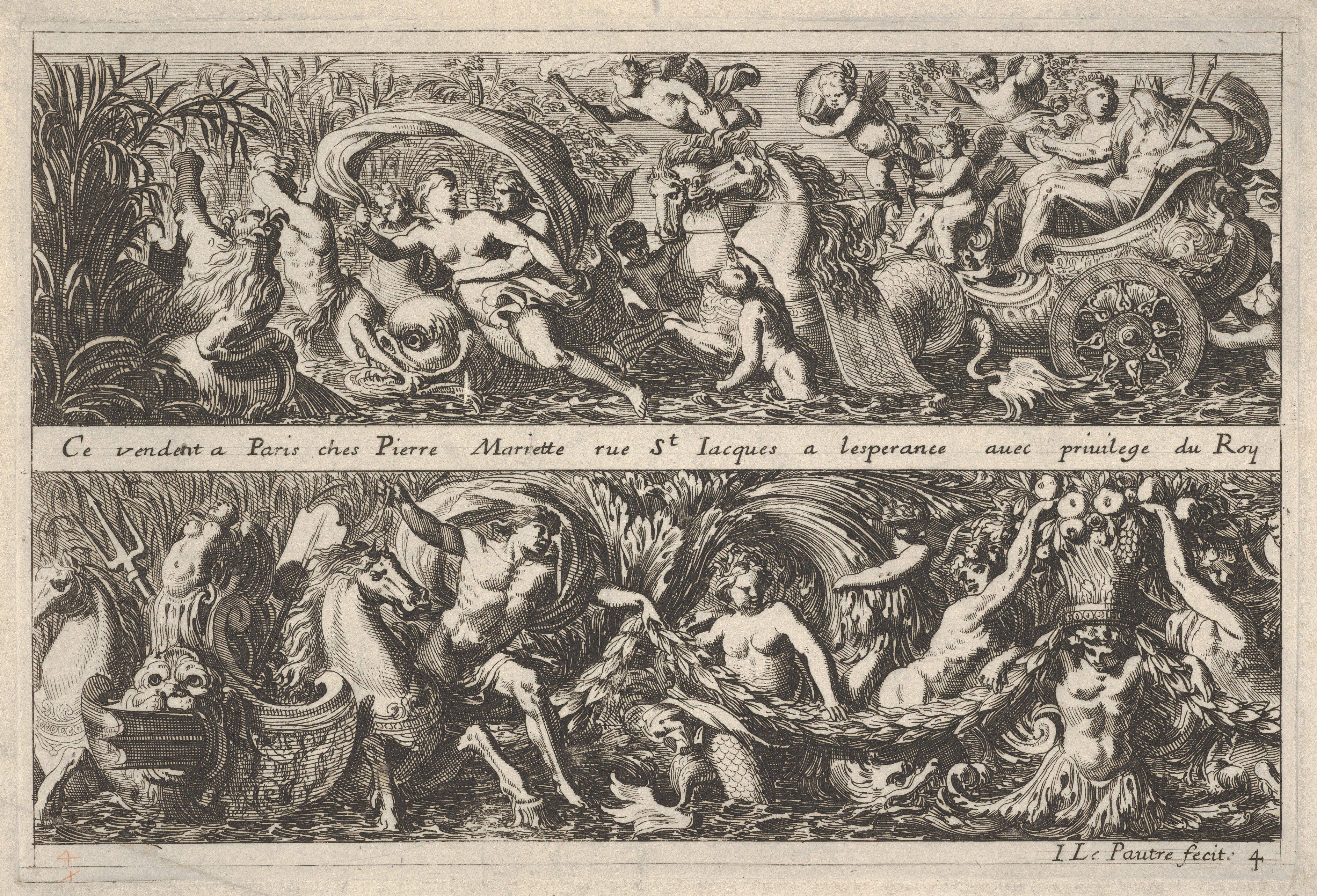 Print Ornament & Architecture; Prints